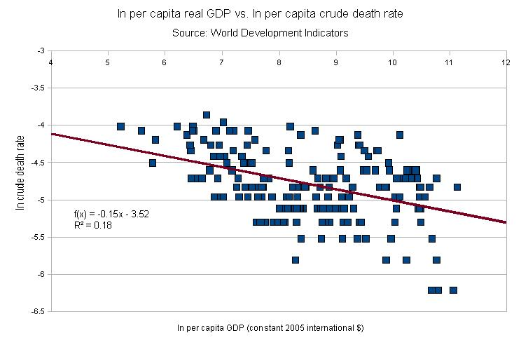 Scatter plot of ln of the crude death rate vs. ln of real per capita GDP (2005 constant international $). Based on data from World Development Indicators